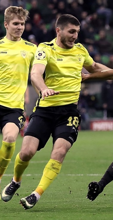 Apti Akhyadov with FC Anzhi Makhachkala in a game against FC Krasnodar.